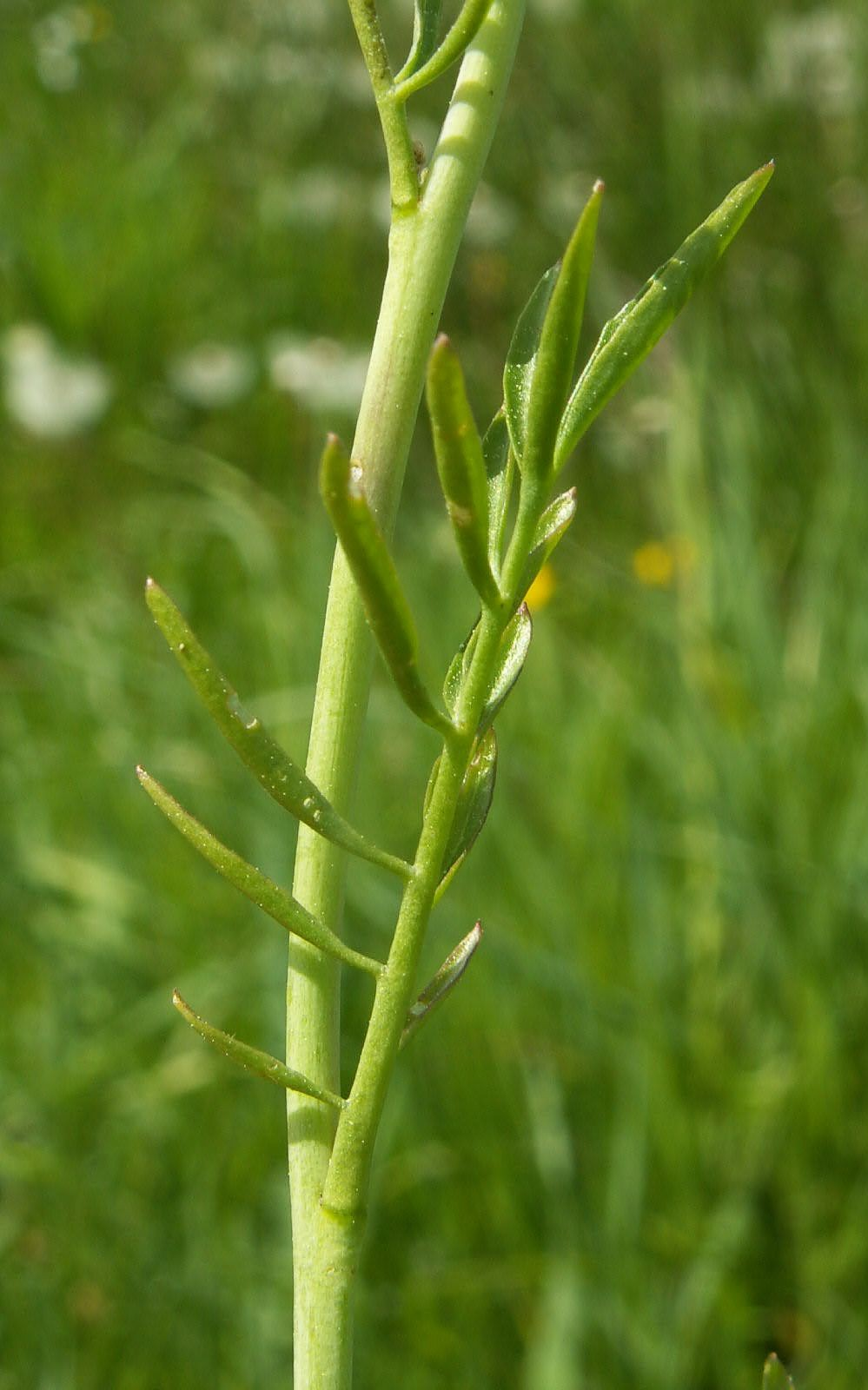 Leaf of Cardamine pratensis. Buk near Szczecin, NW Poland